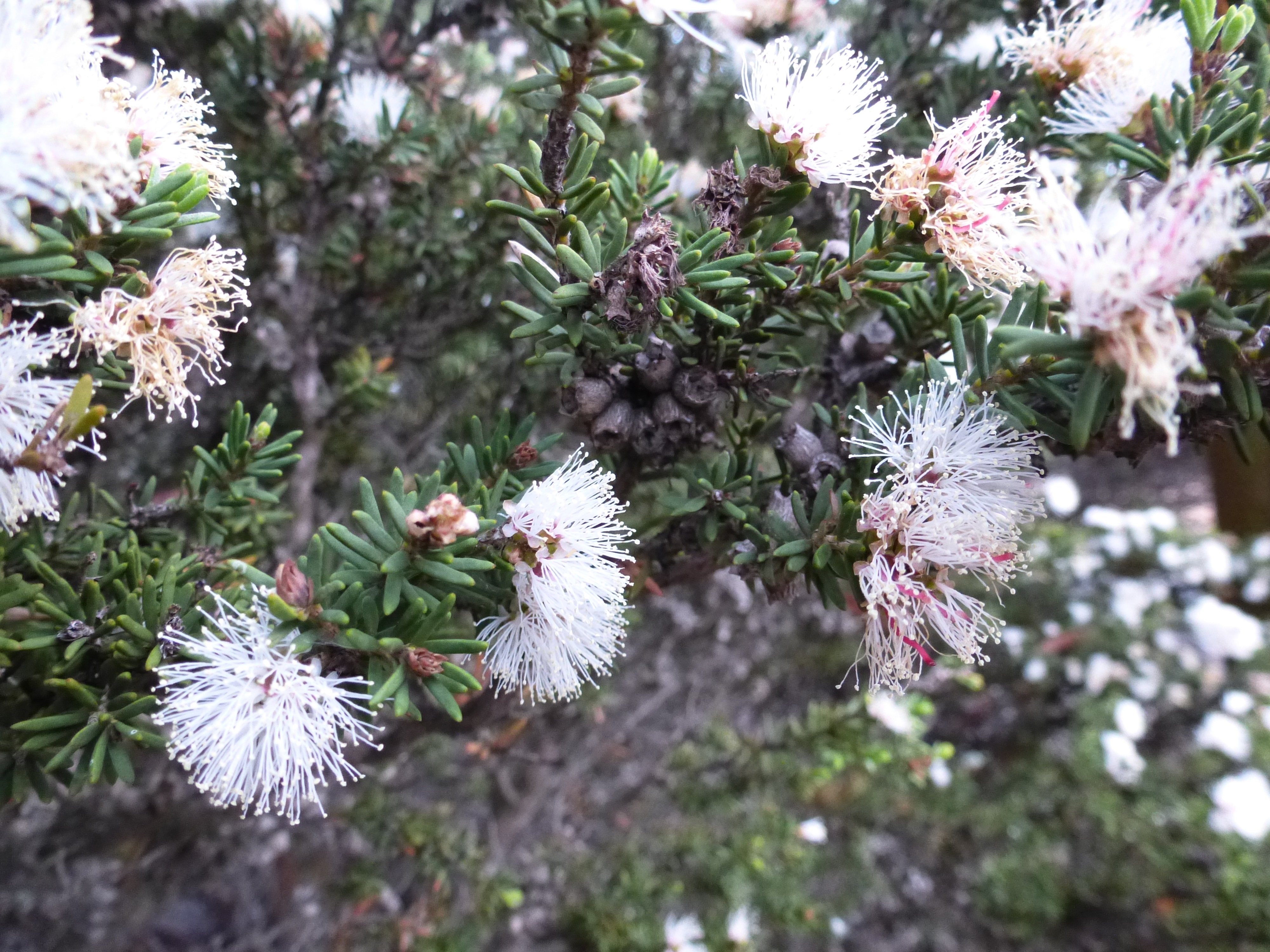 Melaleuca bromelioides near Ravensthorpe